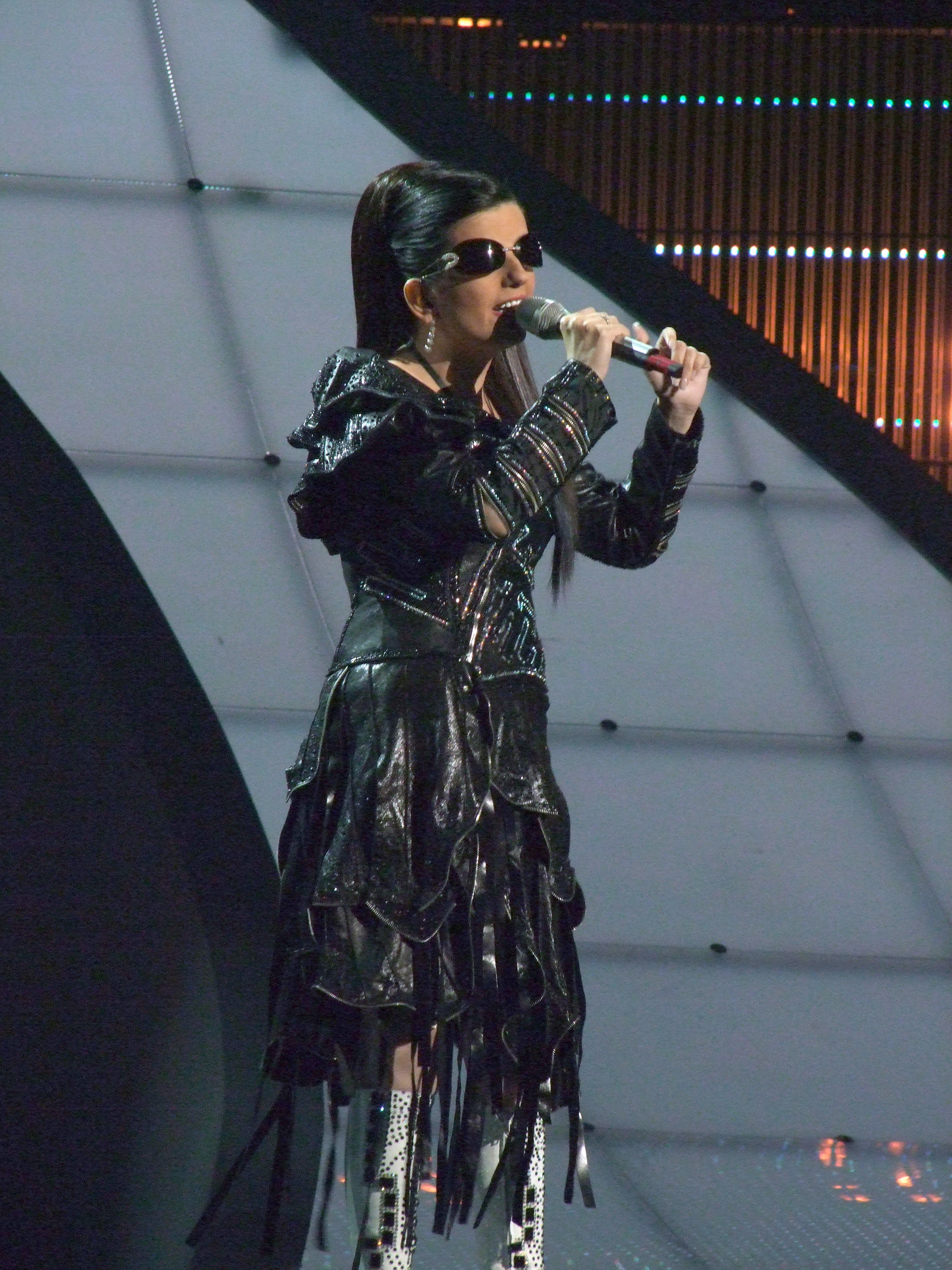 Singer Diana Gurtskaya of Georgia in the 2nd semi-final at the Eurovision Song Contest in Belgrade, Serbia.